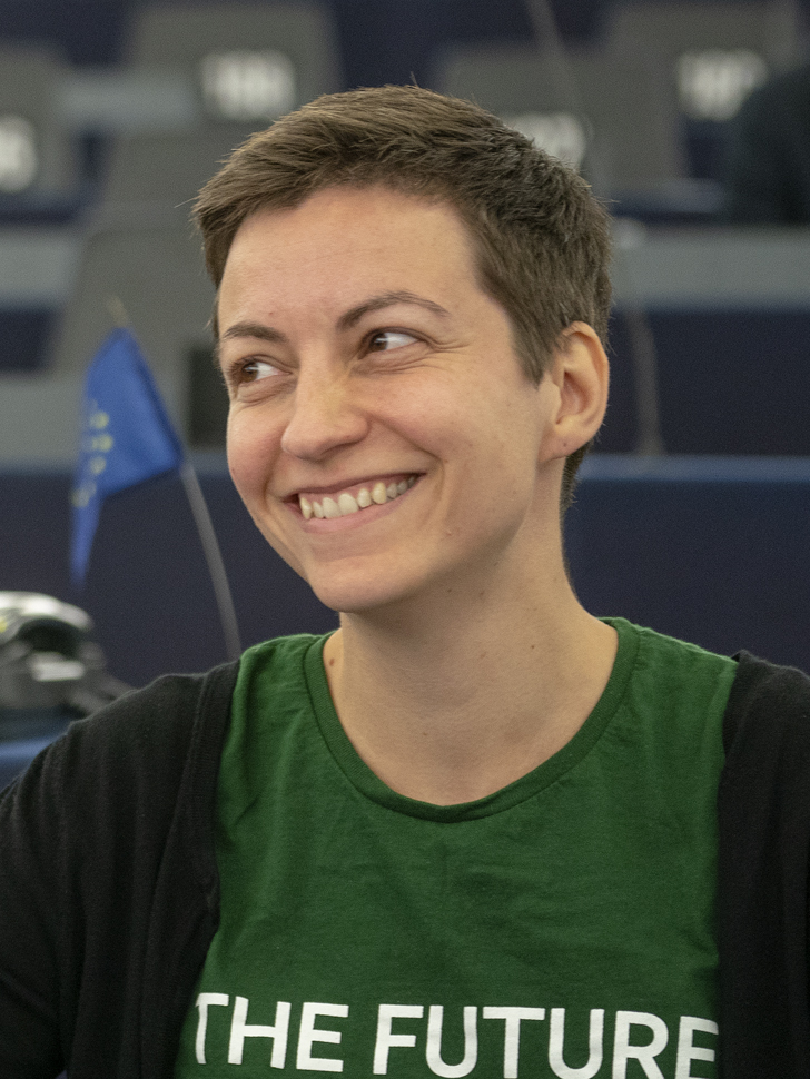 MEPs discussed the priorities of the incoming Finnish presidency with Prime Minister Antti Rinne and Commission Vice-President Jyrki Katainen. In his speech, Prime Minister Antti Rinne outlined that climate leadership, common values and the rule of law, competitiveness and social inclusion, and comprehensive security will be the focus of the Finnish presidency of the Council of the EU during the next six months. He highlighted that the slogan, “Sustainable Europe - Sustainable Future”, captures the goal of the presidency to contribute to a “socially, economically and ecologically sustainable” future for the EU. Read more: This photo is free to use under Creative Commons license CC-BY-4.0 and must be credited: "CC-BY-4.0: © European Union 2019 – Source: EP". No model release form if applicable. For bigger HR files please contact: webcom-flickr(AT)